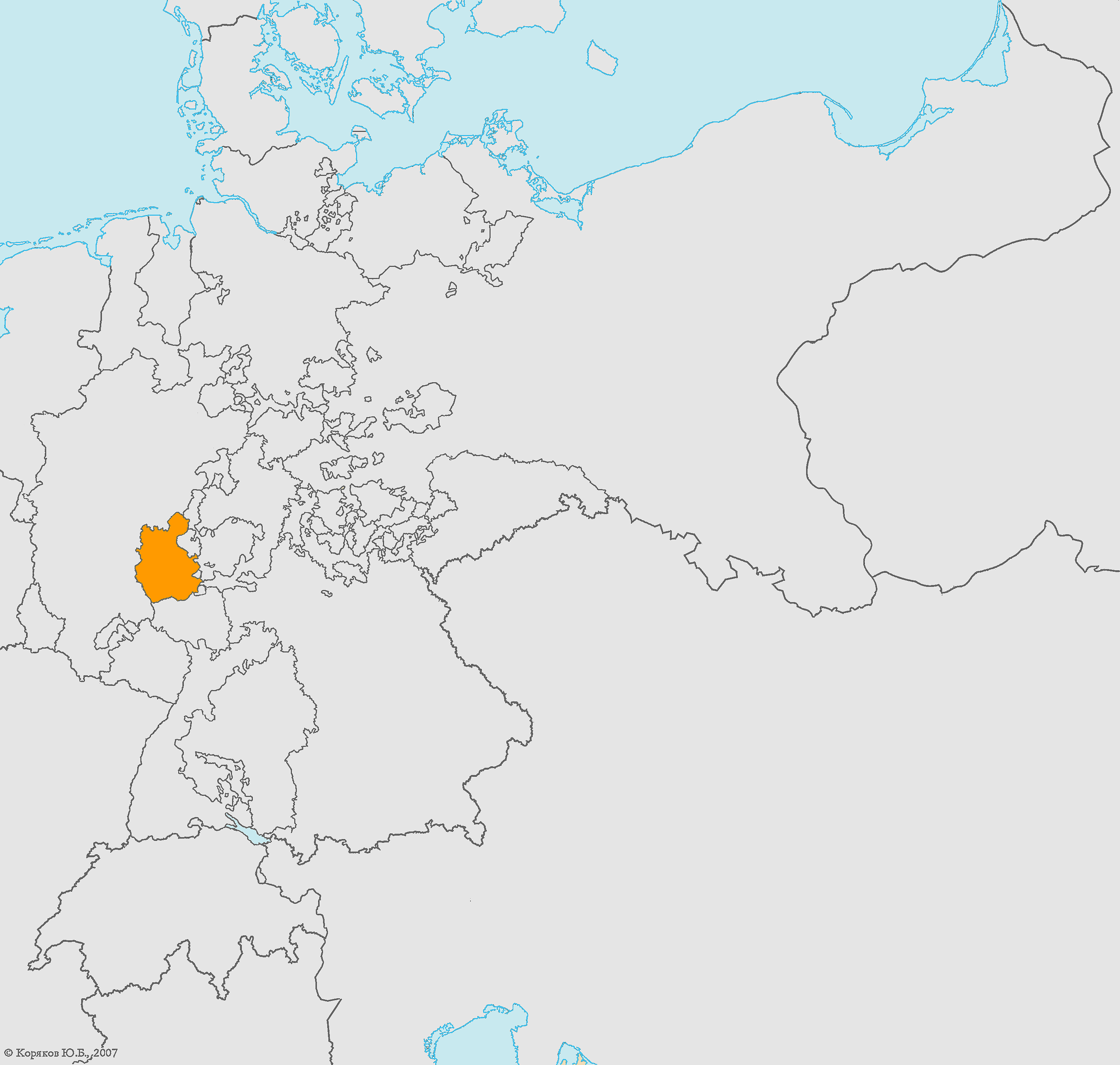 Duchy of Nassau before Austro-Prussian War in 1866.